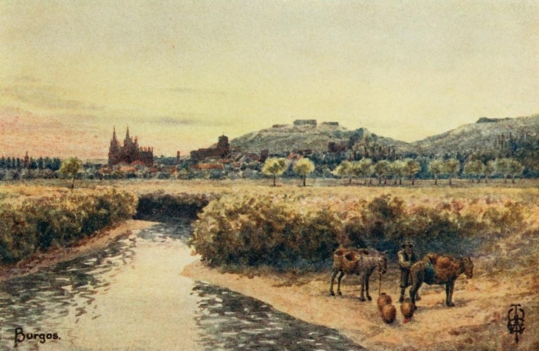 Búrgos from the East.